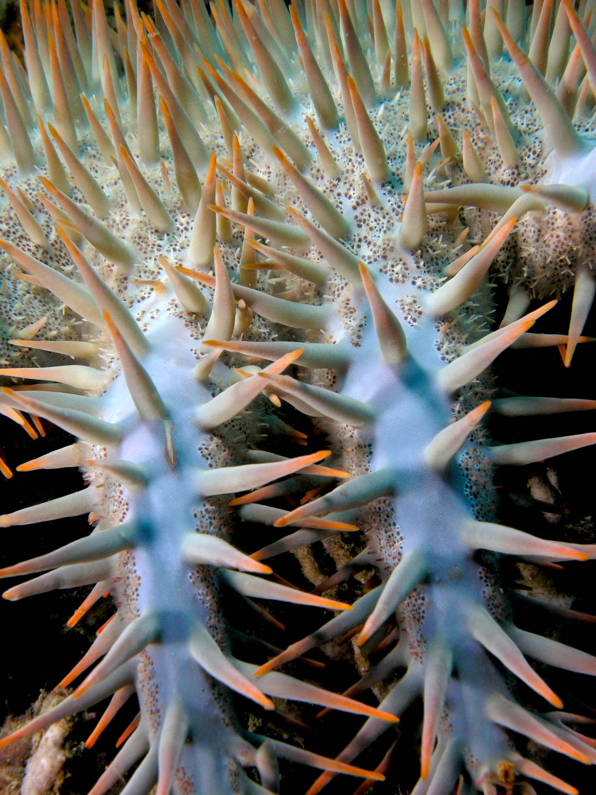 Acanthaster planci (Crown of thorns seastar) arms